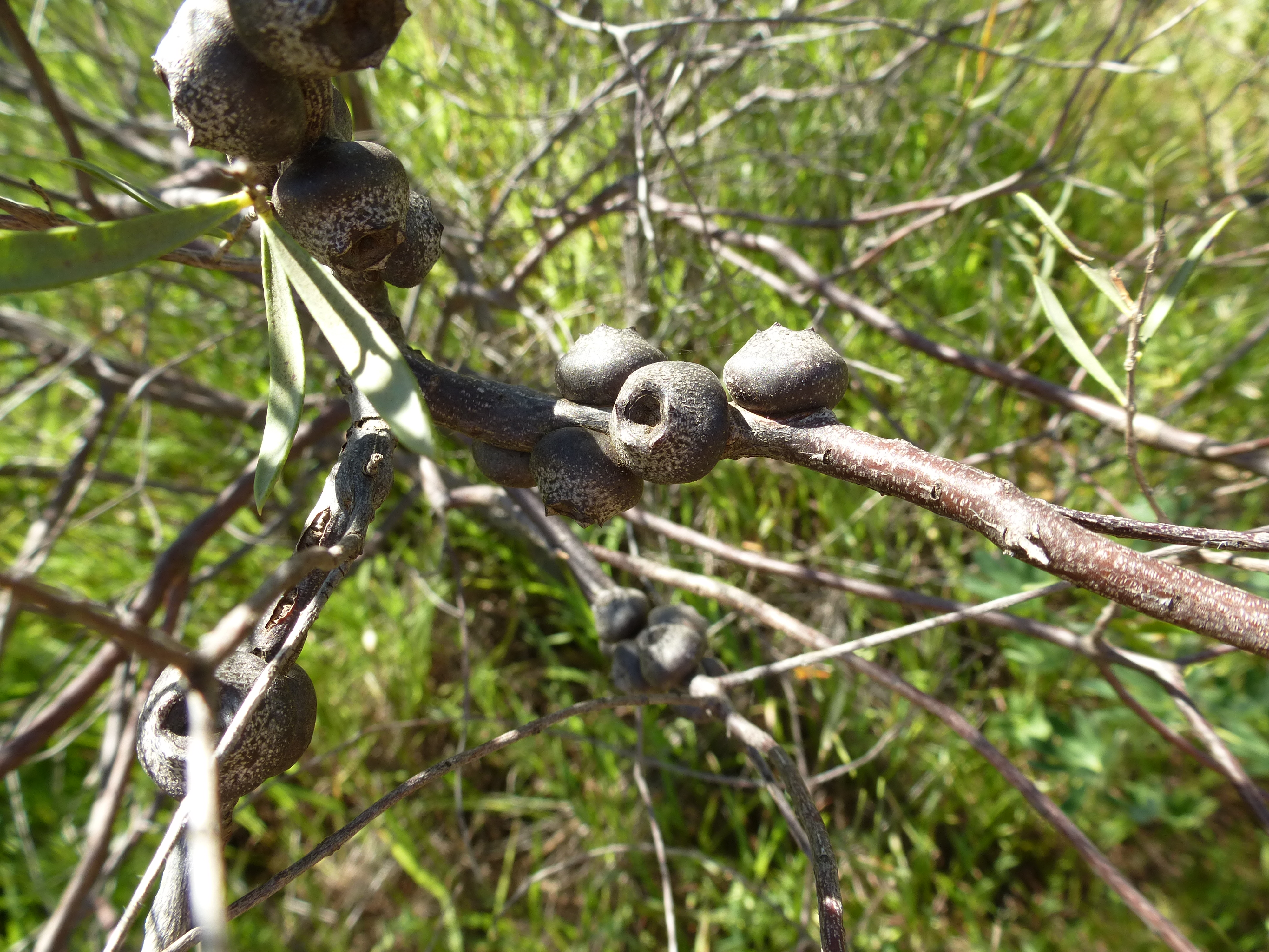 Melaleuca fulgens near Northampton